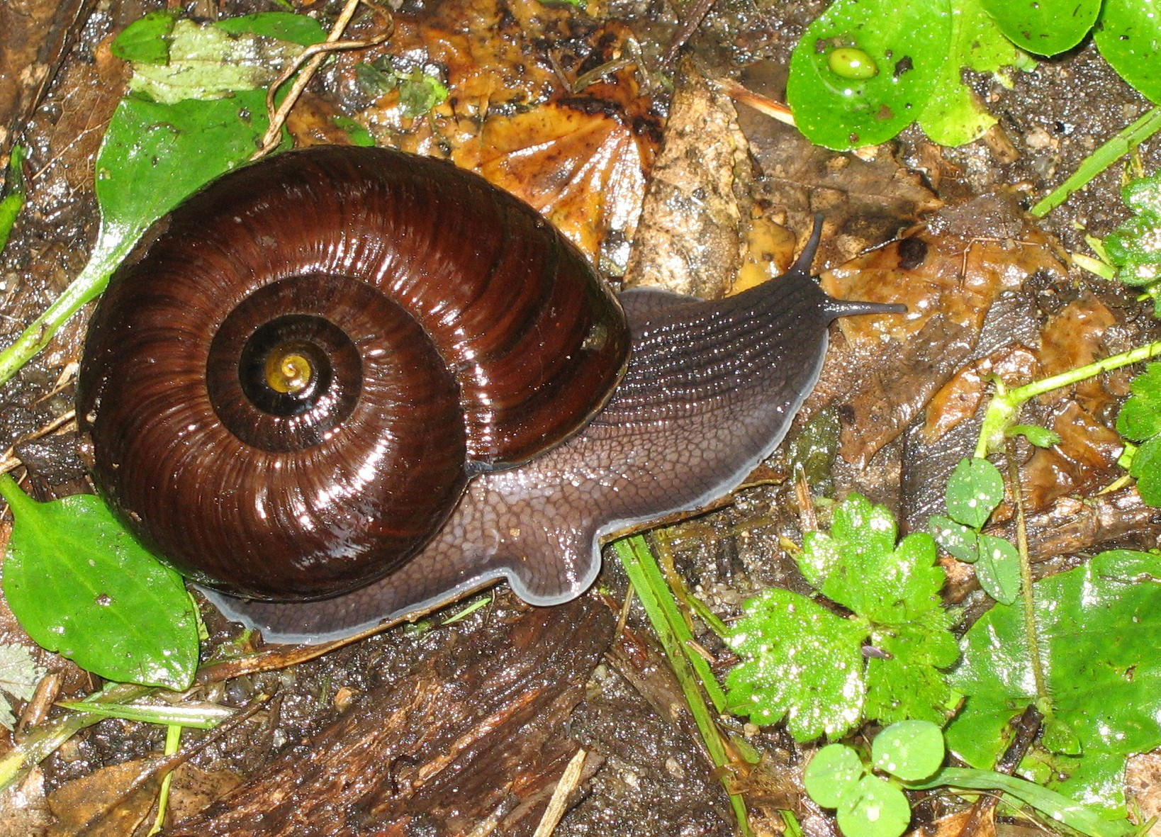 Powelliphanta annectens, near Heaphy Hut locale, Heaphy Track, Kahurangi National Park